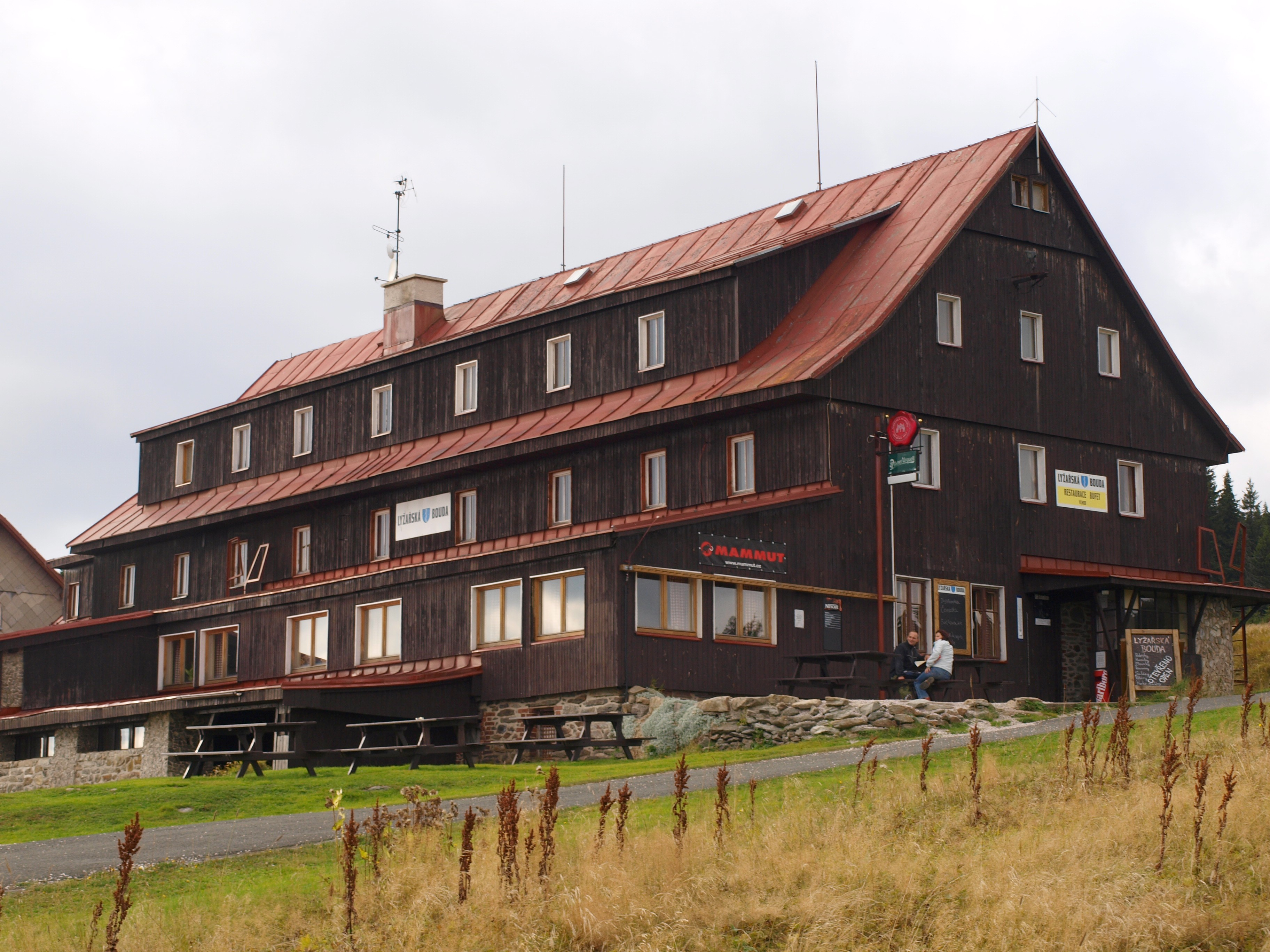 Lyžařská bouda, Krkonoše